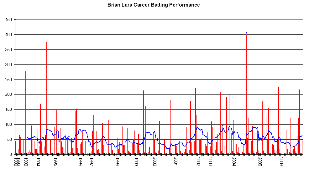 This graph details the Test Match performance of Brian Lara. The red bars indicate the player's test match innings, while the blue line shows the average of the ten most recent innings at that point. Note that this average cannot be calculated for the first nine innings. The blue dots indicate innings in which Lara finished not-out. This graph was generated with Microsoft Excel 2002, using data from Cricinfo and .au. The information in this graph is curre